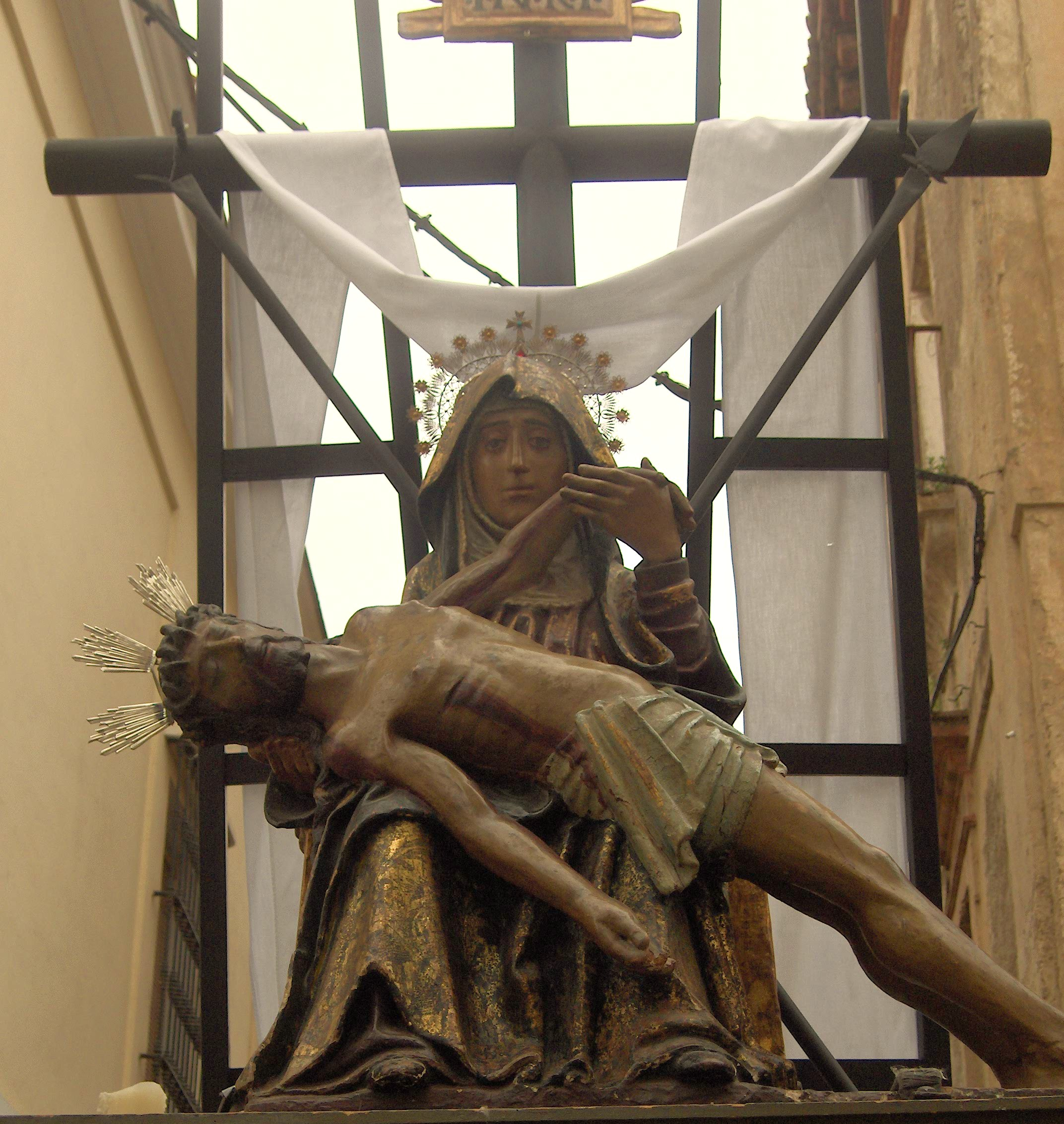 pieta